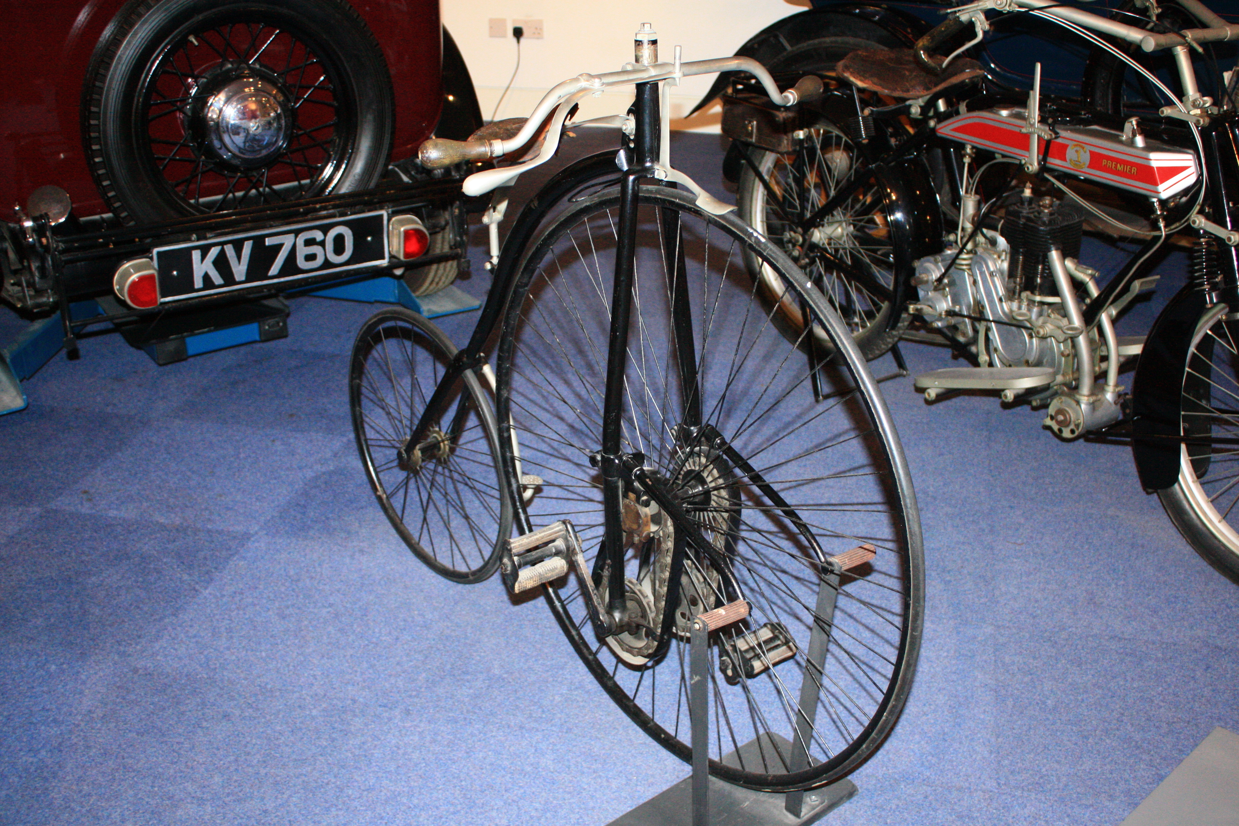 "This type of bicycle was an attempt to make the big Penny Farthing safer. Although it has the same shape as the Penny Farthing (big front wheel, small back wheel) the gearing on the front wheel (the small chains and gears) means the 38 inch front wheel will be 'geared up' to a 56 inch wheel. This means it will go as fast as a big wheeled bike but be safer because the rider is closer to the ground. The Kangaroo was very popular as a racing bike in 1884, winning many races against Penny Farthings. The shiny metal part that goes over the front wheel and up to the handle bars, is a 'spoon' brake, which pushed down onto the front wheel." Coventry Transport Museum, UK. 2009